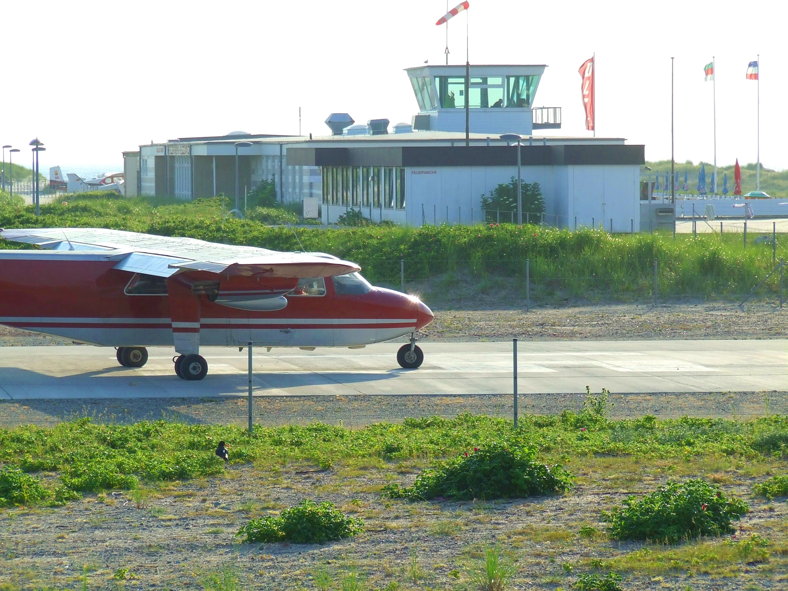 The airstrip of Düne at morning with starting plane of OLT Express Germany